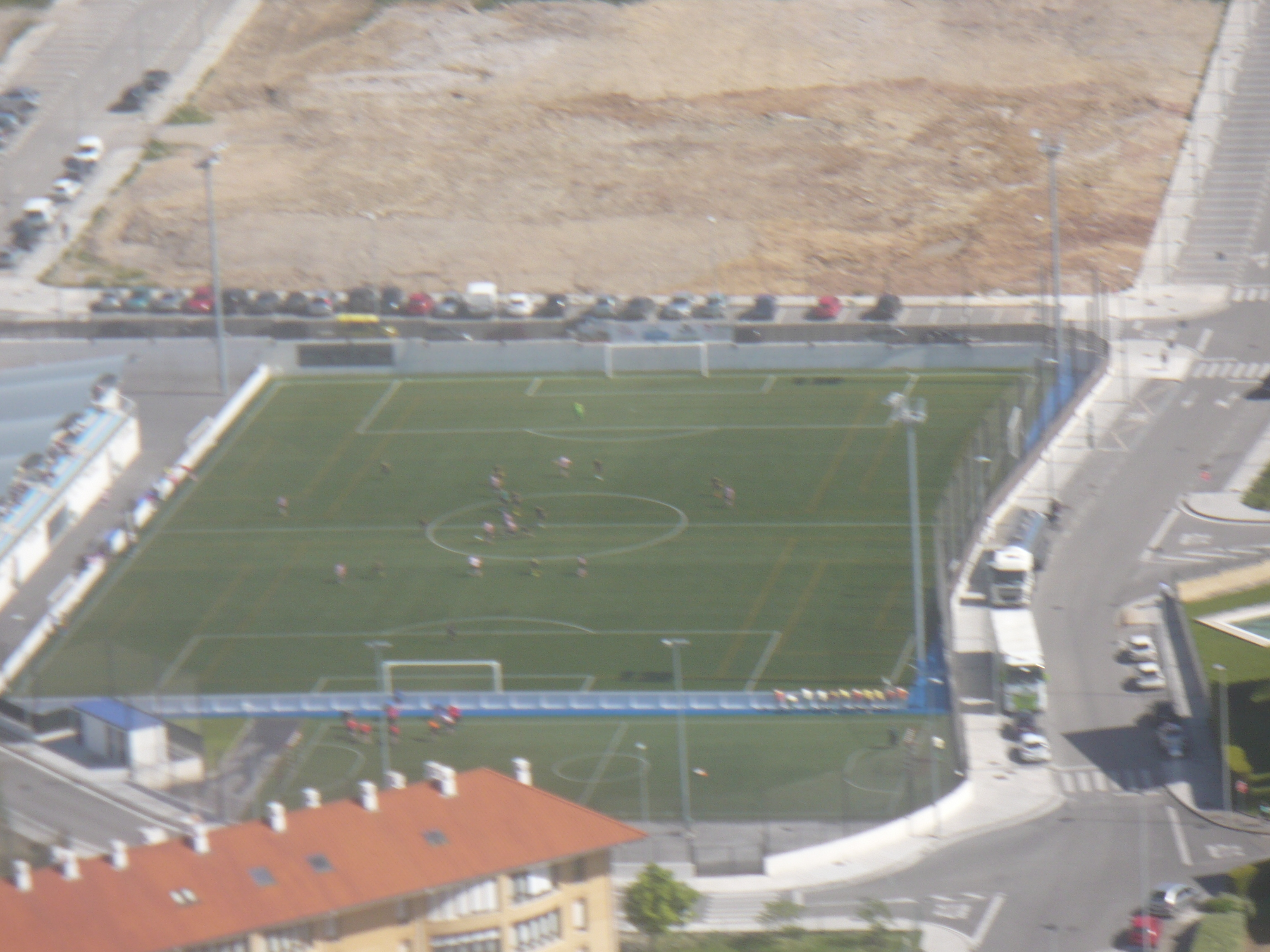 Vicente Miera football ground (Santandé, Cantabria), home to SD Nueva Montaña